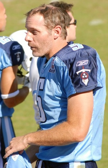 Tennessee Titans quarterback Kerry Collins on the sidelines during the November 2, 2008 game against the Green Bay Packers at LP Field.